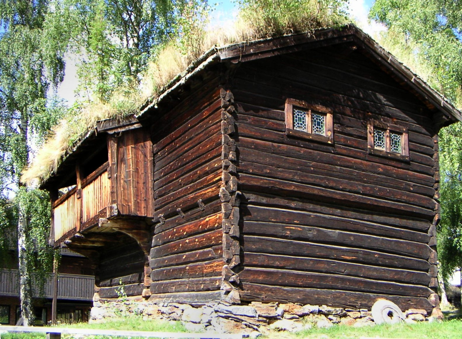 Handeloftet from the farm Hande in Vestre Slidre. The first building at Valdres Folkemuseum, bought from Hande in vestre Slidre 27. december 1905 for the amouth of 1000 kroner. Originaly it was reerected at Valdres Bygdesamling in 1906, and later relocated once more in 1923, this time to where it is now. It is assumed to have been built in the period 1530 - 1640.